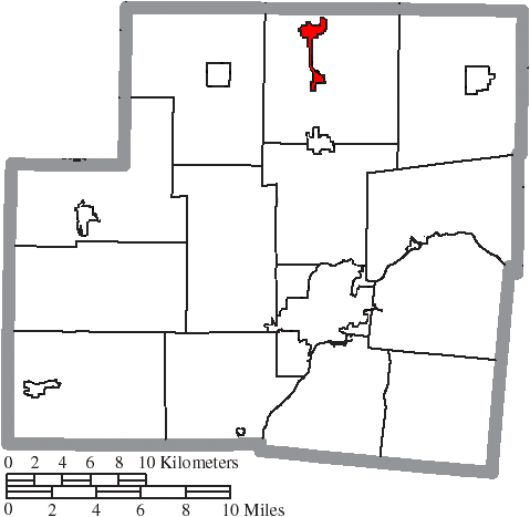 Map of the municipal and township boundaries of Shelby County, Ohio, United States, as of the 2000 census, with the location of the village of Botkins highlighted. Township borders are shown only in unincorporated areas in order to differentiate incorporated and unincorporated areas more clearly.